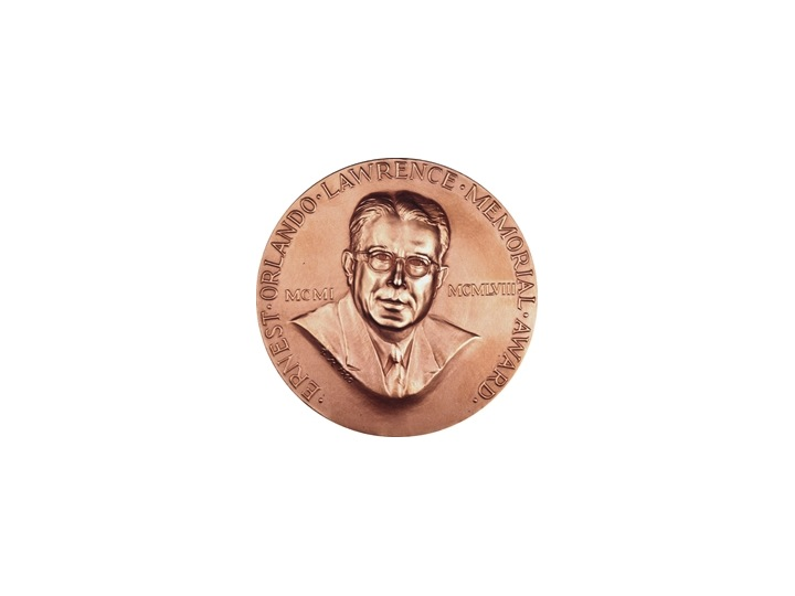 Ernest Orlando Lawrence Award medal (front).